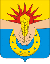 Uspensky rayon (Krasnodar krai), coat of arms